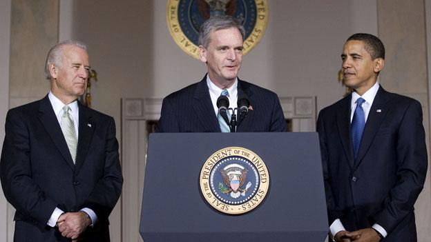 Vice President Joe Biden, Commerce Secretary-designate Judd Gregg, and President Barack Obama.